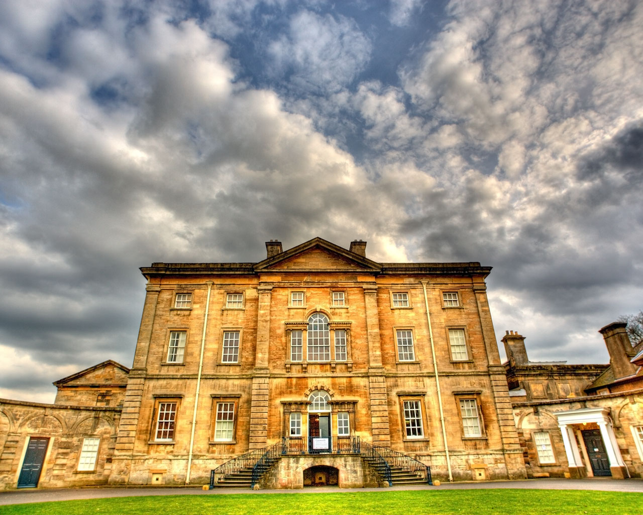 North side exterior of Cusworth Hall, Doncaster, England